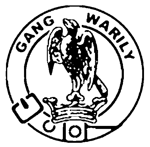 A digital representation of a crest badge suitable for use by any member of Drummond Scottish clan. This image has been created to illustrate the difference between a clan chief's crest badge, a clan chieftain's crest badge, an armiger's crest badge, and a clan member's crest badge. The copyright for this representation of the Scottish crest badge is held by the author of this image. In Scotland, the usage of heraldry is governed by legal restrictions, independent of the status of the depiction shown here. The crest and motto elements of the crest badge are always the heraldic property of an individual (the crest badges, used by most Scottish clan members, are usually the heraldic property of a clan's chief). Though a crest badge can be freely represented, in Scotland it cannot be appropriated or used in such a way as to create a confusion with or a prejudice to its owner. English | +/−